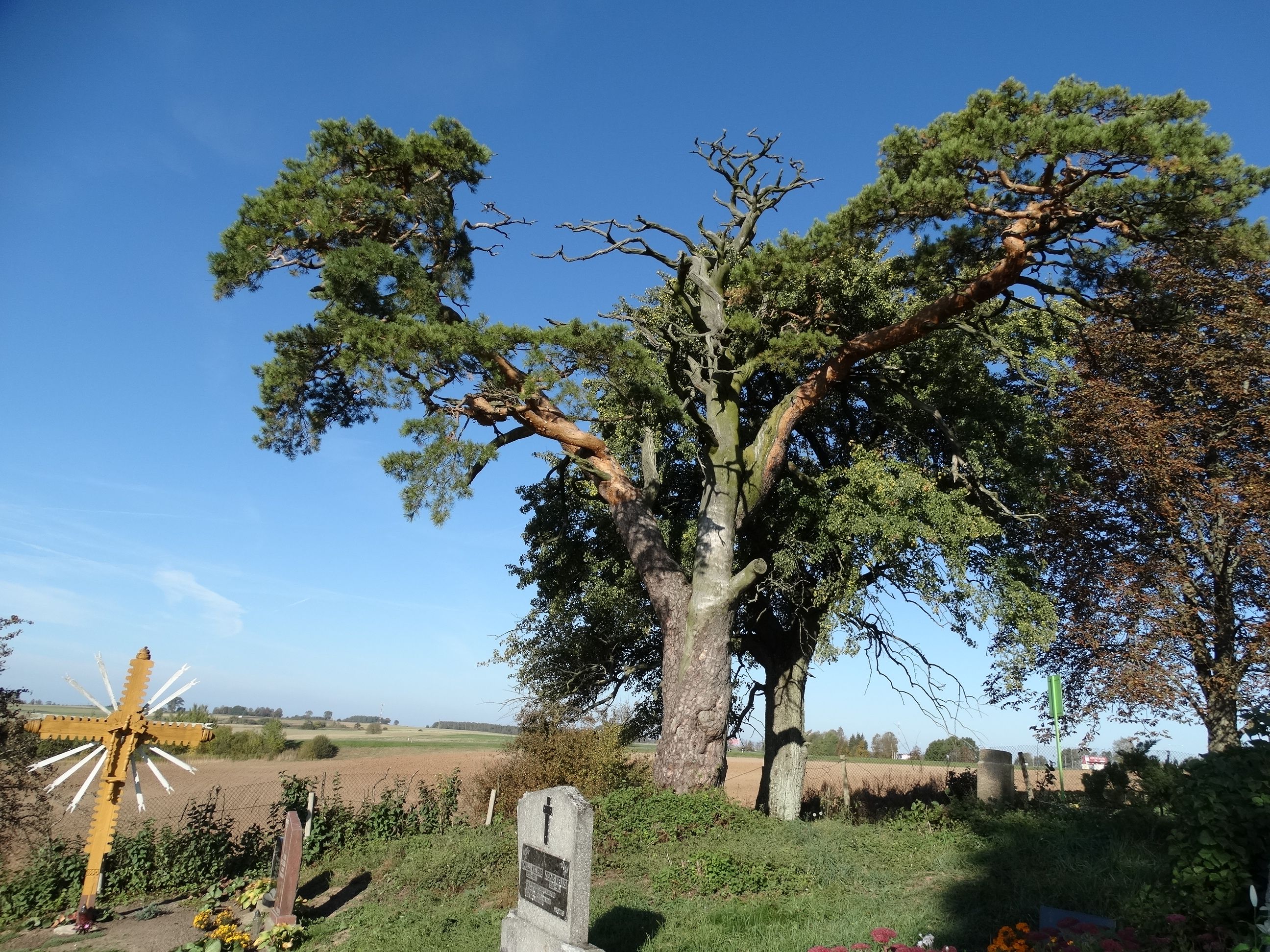 Pine tree, Antakalnis, Kaišiadorys District, Lithuania